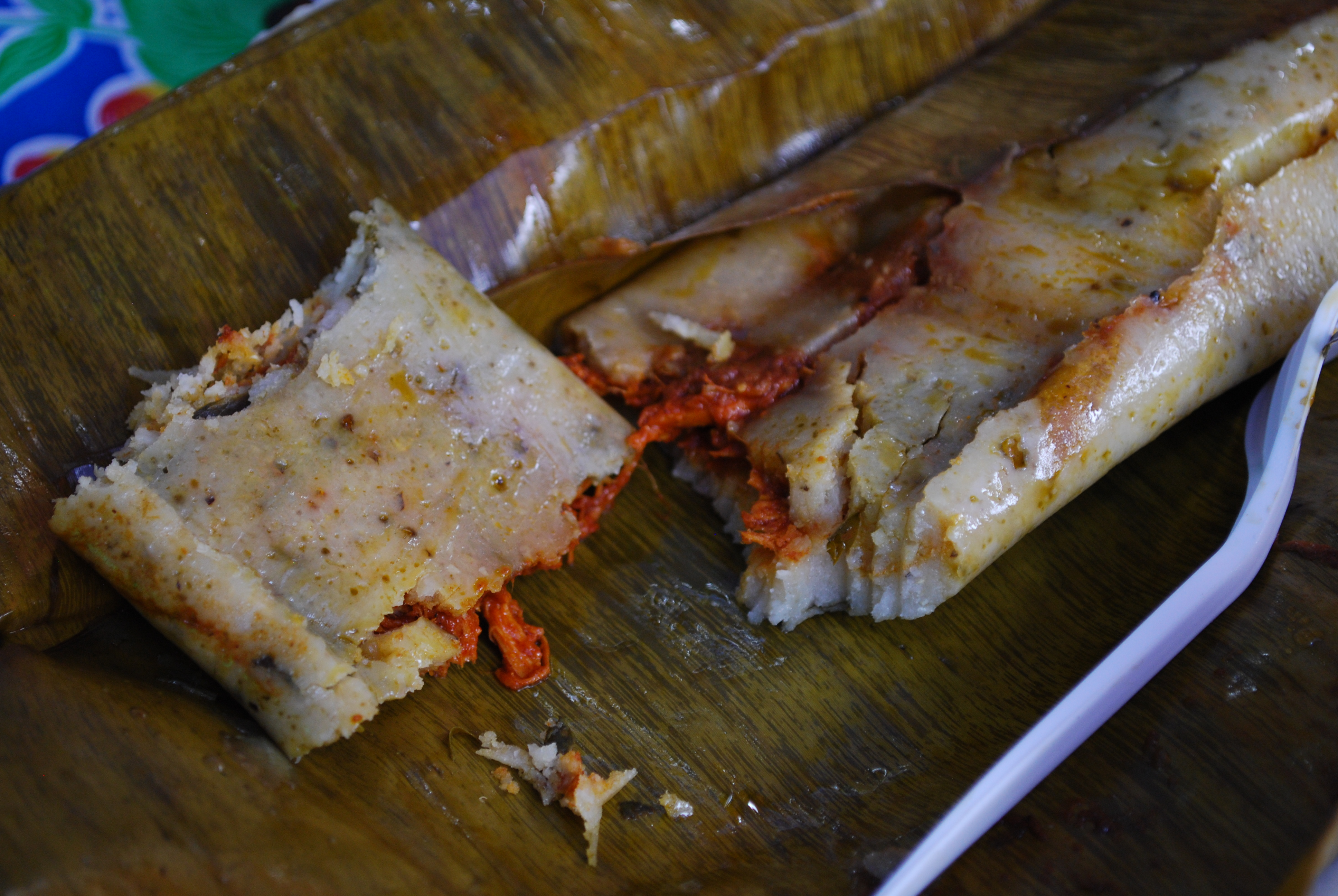 Tamale from Chiapas as served outside the archeological site of Palenque